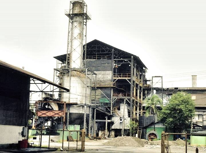 Sugar mill located in Tarlac